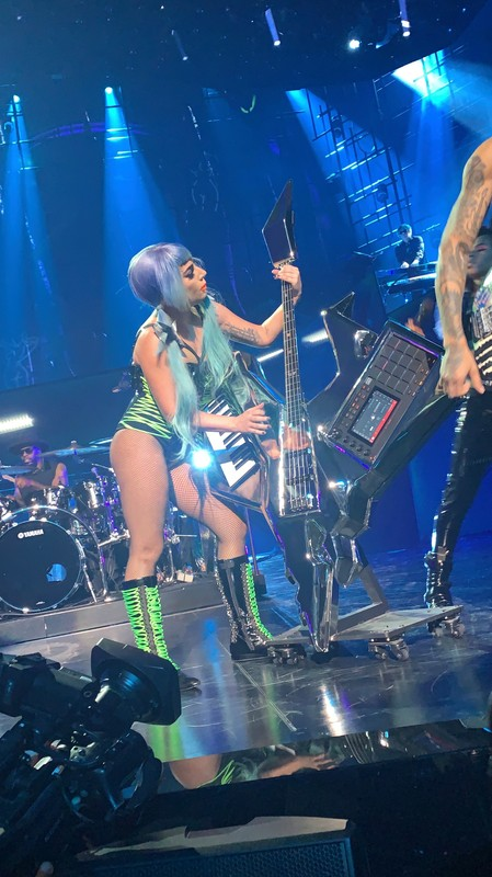 during the fame